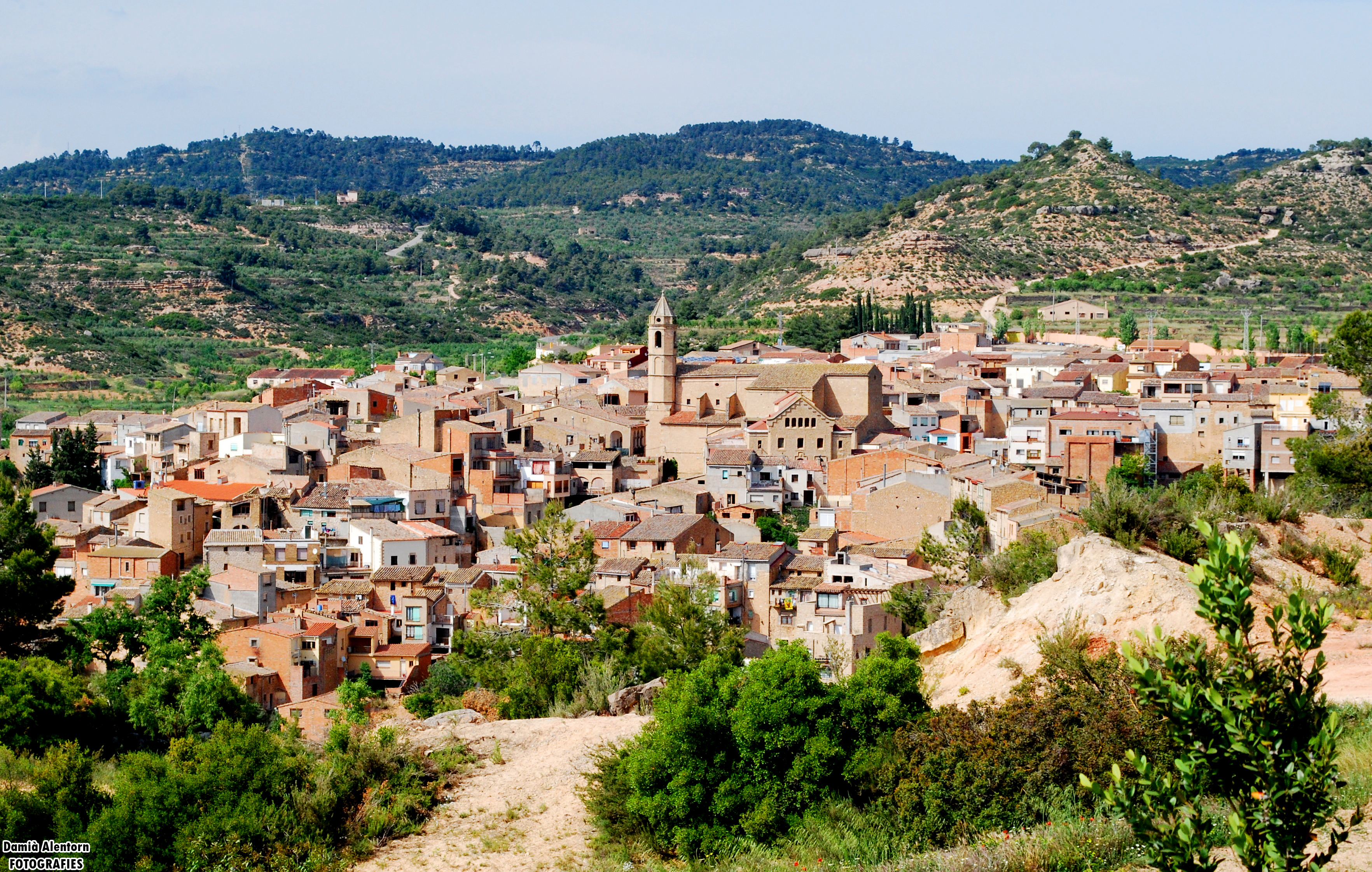 General view of the village of Cervià de les Garrigues, Lleida, Catalonia